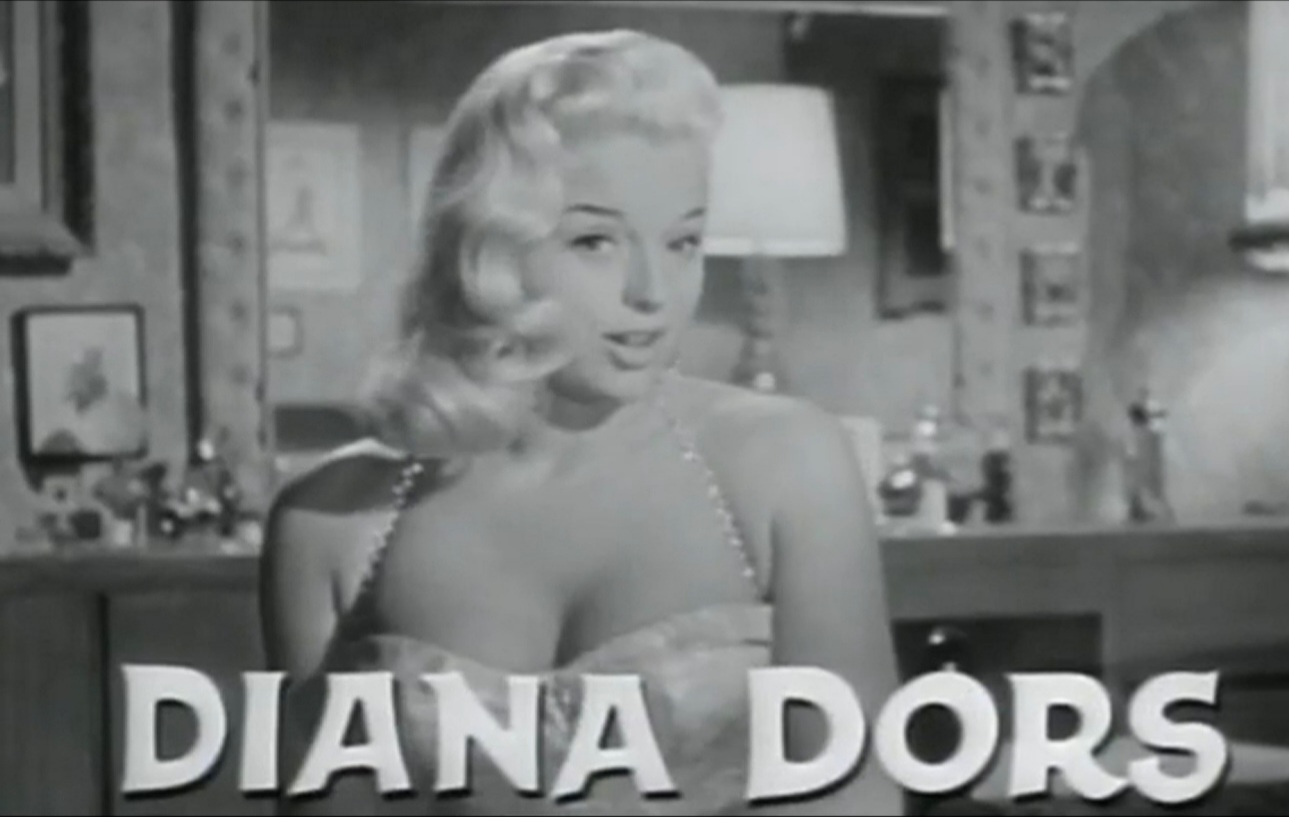 Cropped screenshot of Diana Dors from the trailer for the film I Married a Woman.